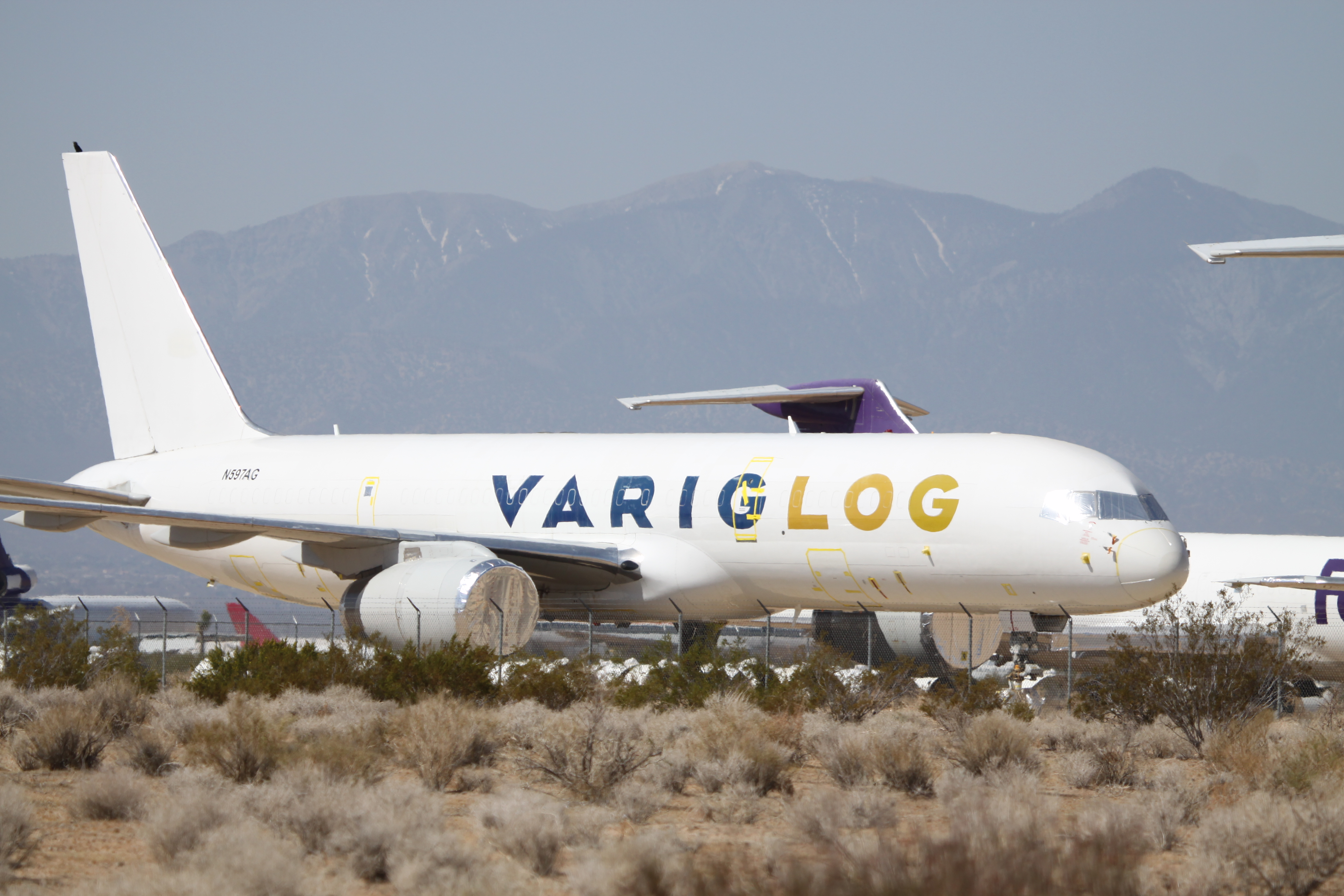 At Victorville